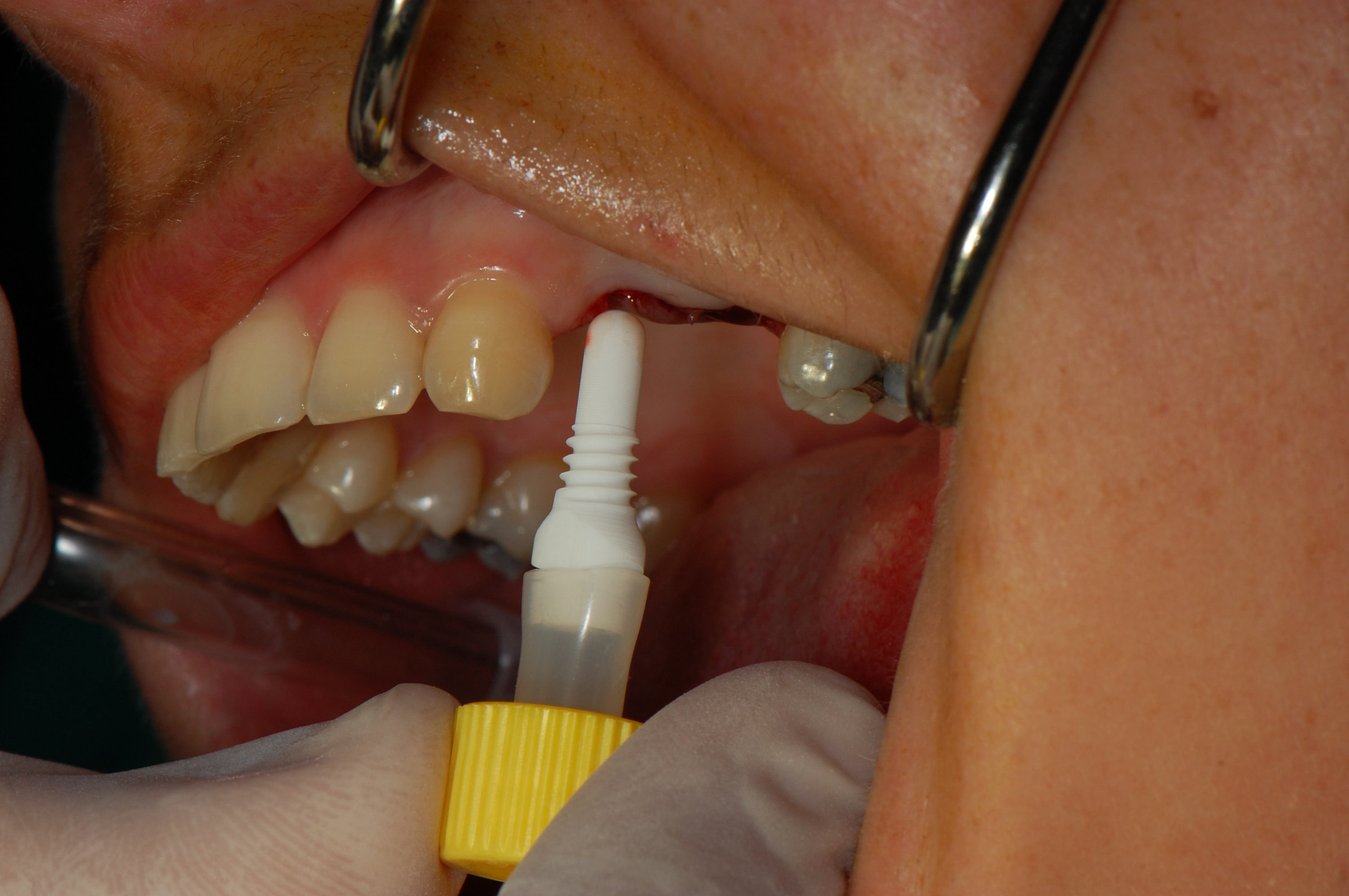 CeraRoot zirconia dental implant (metal-free) type 14, tapped in procedure.